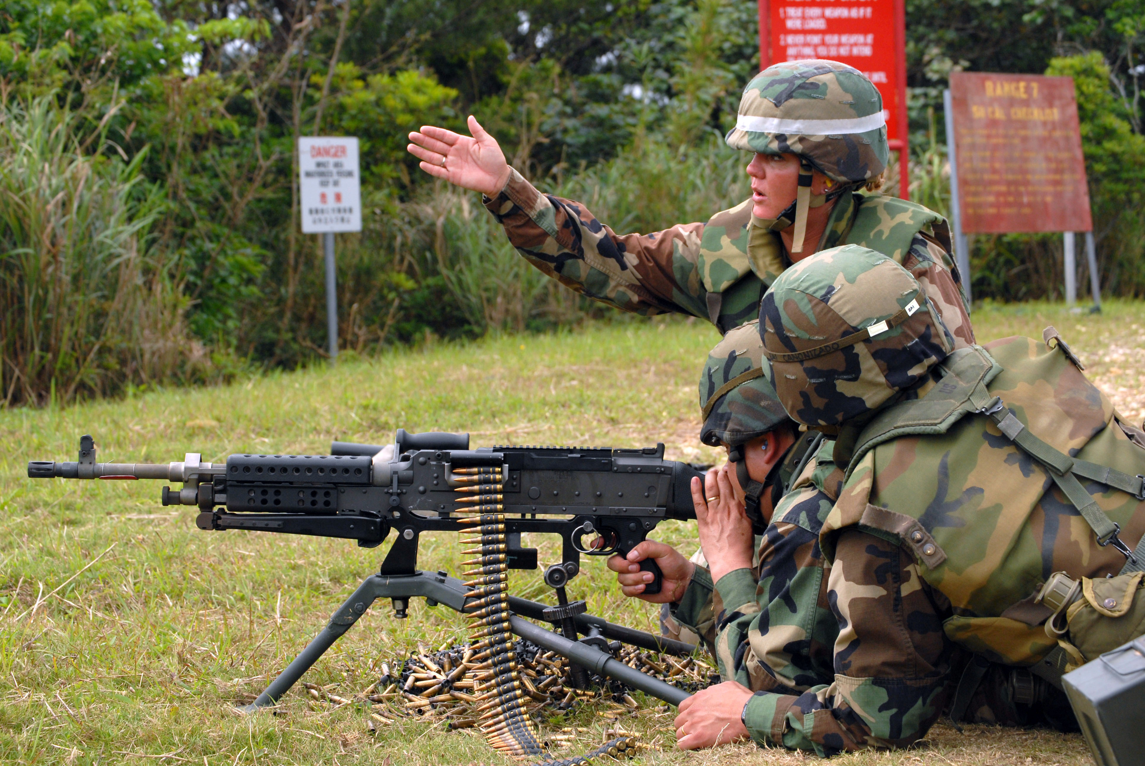 OKINAWA, Japan (April 6, 2007) - Equipment Operator 1st Class Shannon Farber instructs Mass Communication Specialist 1st Class Carmichael Yepez how to aim a M-240B machine gun during a weapons training exercise at a range in Camp Hansen. Seabees from NMCB-3 are taking part in a weeklong military field training exercise as part of a six-month deployment in support of construction operations and the global war on terrorism. U.S. Navy photo by Construction Electrician 1st Class Anthony Castillo (RELEASED)